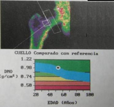 bone density femur female